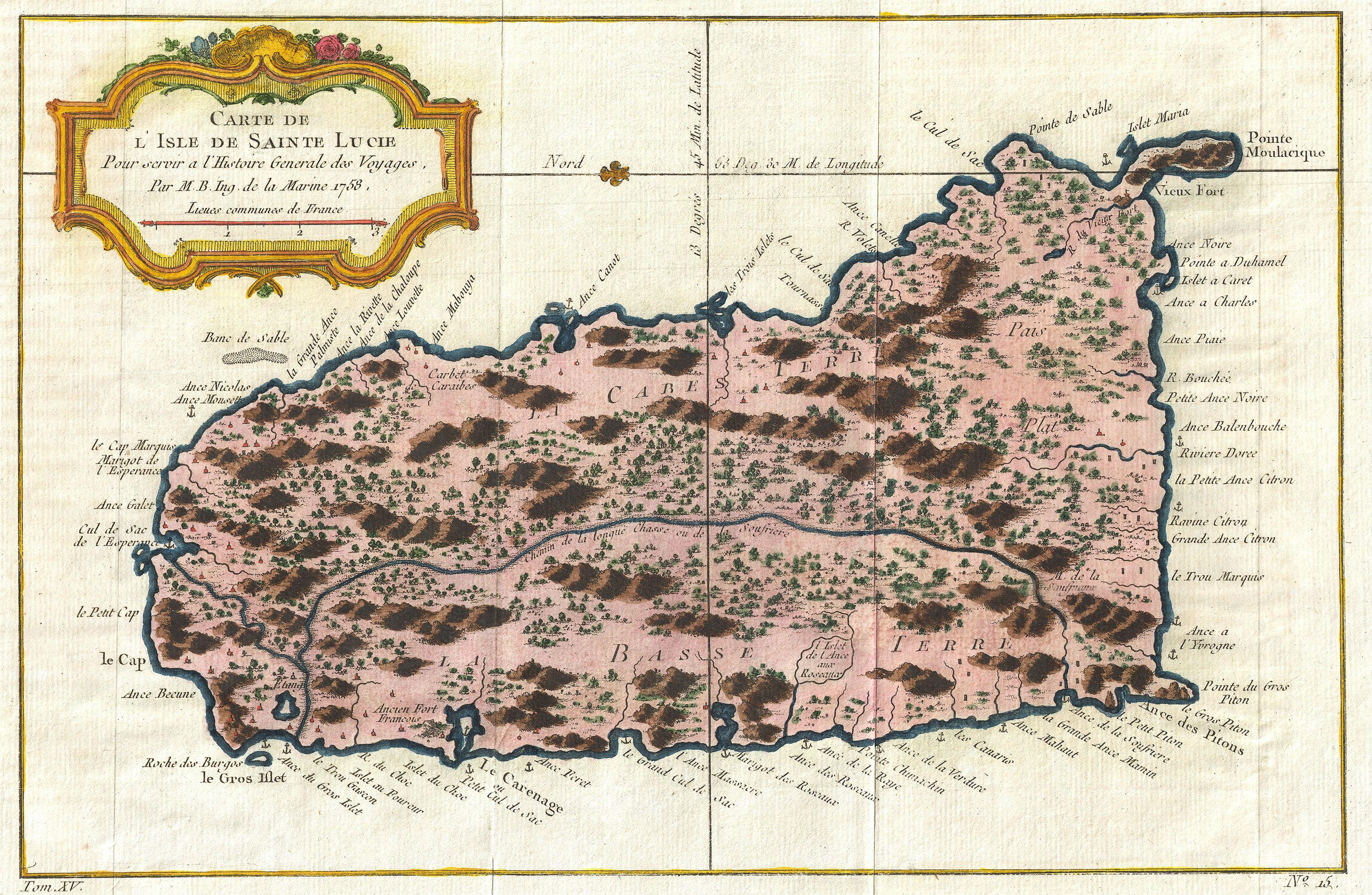 An extremely attractive example of Bellin's rare 1758 map of Saint Lucia (St. Lucia) or Sainte Lucie in the West Indies. St. Lucia is considered to be one of the most beautiful of the Windward Isles. This map covers this spectacular Caribbean island in considerable detail showing mountains, cities, and forests in Bellin's distinctive profile style. Good harbors are marked with miniature anchors. A decorative rococo style title cartouche appears in the upper left quadrant. Drafted in 1758 by Jacques-Nicolas Bellin for publication in Provost's c. 1760 edition of L`Histoire Generale des Voyages .